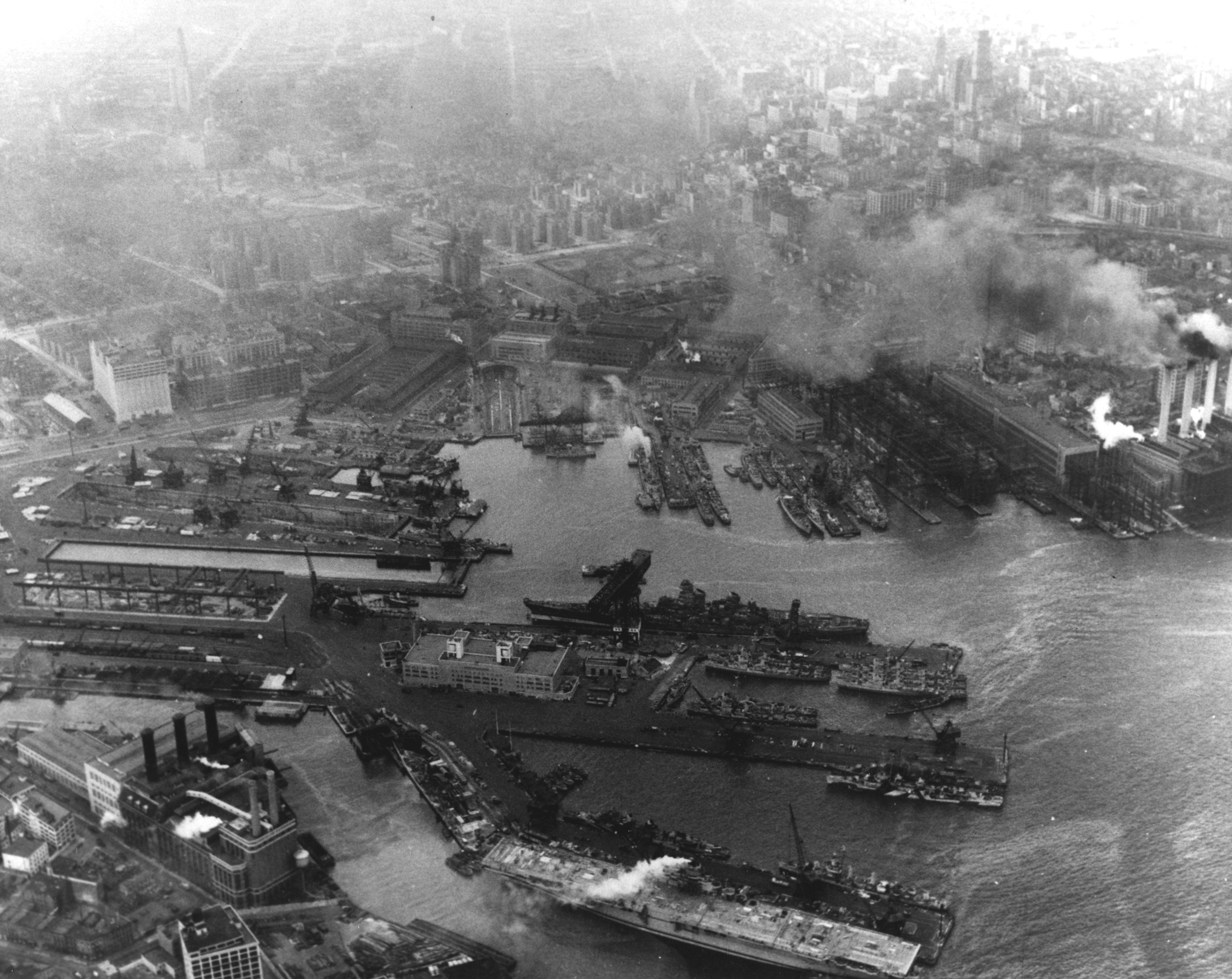 Aerial photograph of the New York Navy Yard, Brooklyn, New York (USA), taken 9 March 1944. USS Missouri (BB-63) is fitting out in the center. The aircraft carrier at the bottom is (most probably) USS Bennington (CV-20), launched on 28 February 1944. The large ship under construction in the upper right is USS Bon Homme Richard (CV-31), which was launched on 29 April 1944. An old battleship is docked to the left of the slips, maybe USS Arkansas (BB-33).